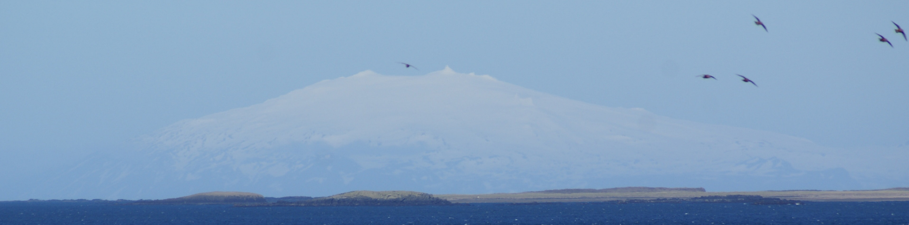 Snæfellsjökull the mystical mountain of Jule Vern "Down to the Center of the Earth" as seen from Melasveit across to Faxaflói bay.